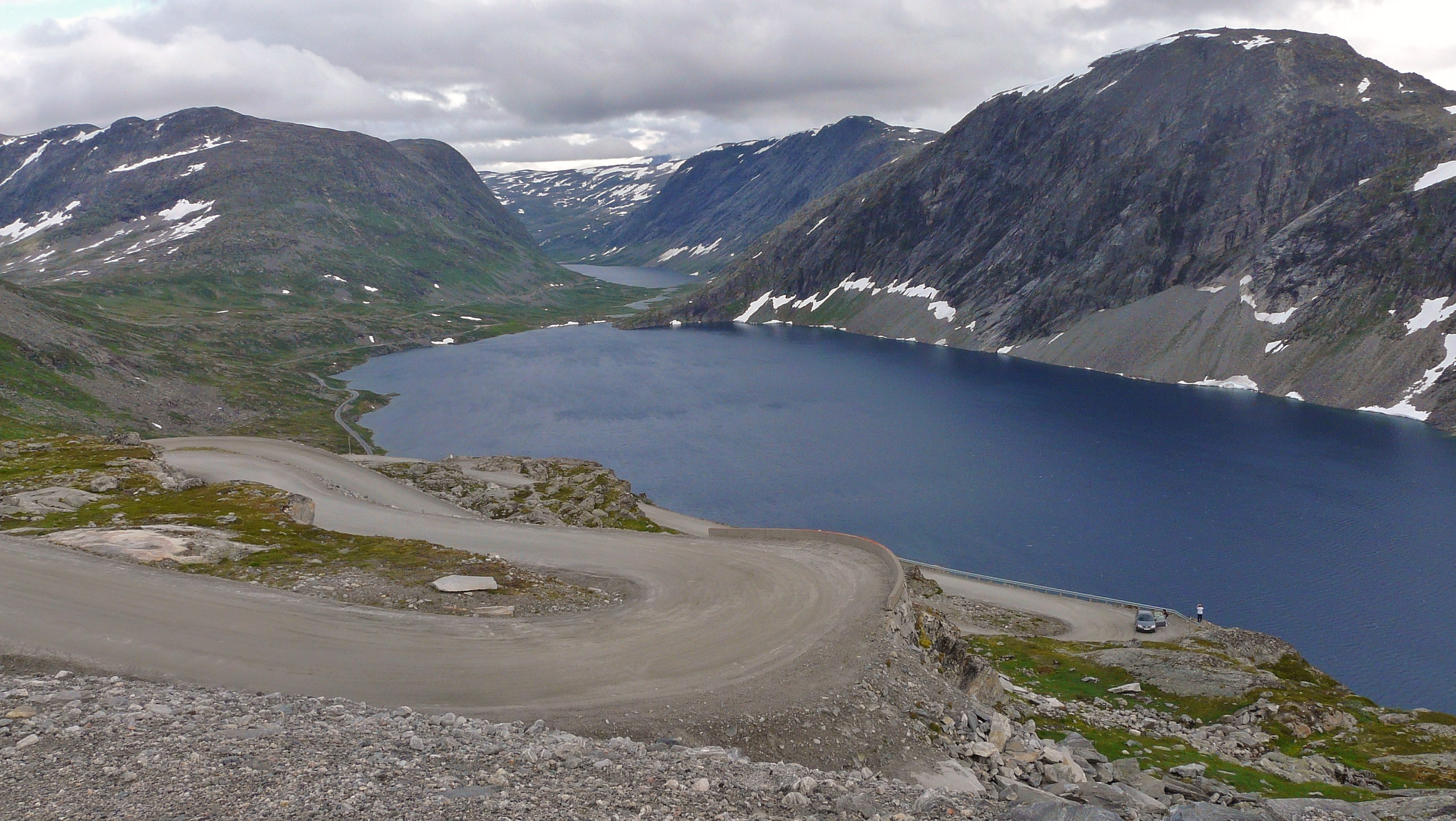 Djupvatnet as seen from the side of Nibbevegen climbing up to Dalsnibba in 2008 August.